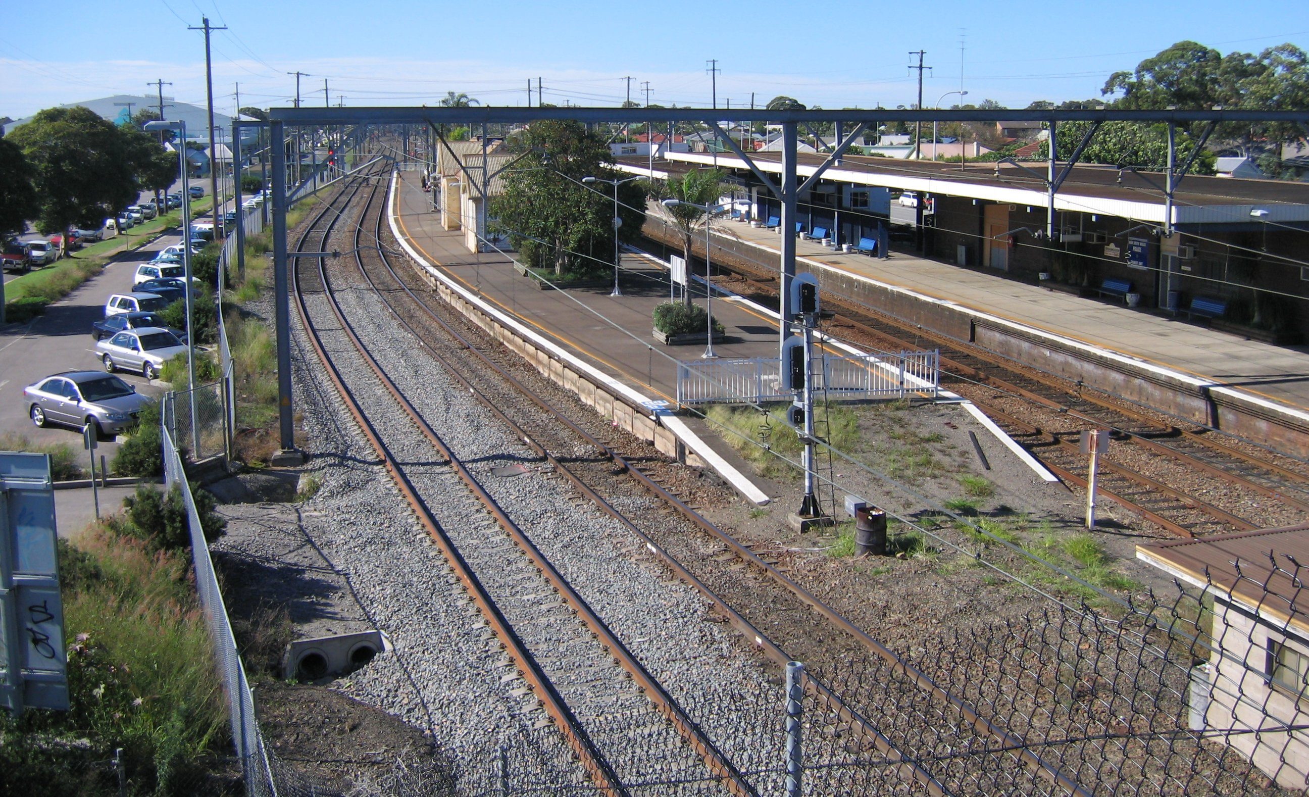 Broadmeadow Railway station viewed from road bridge